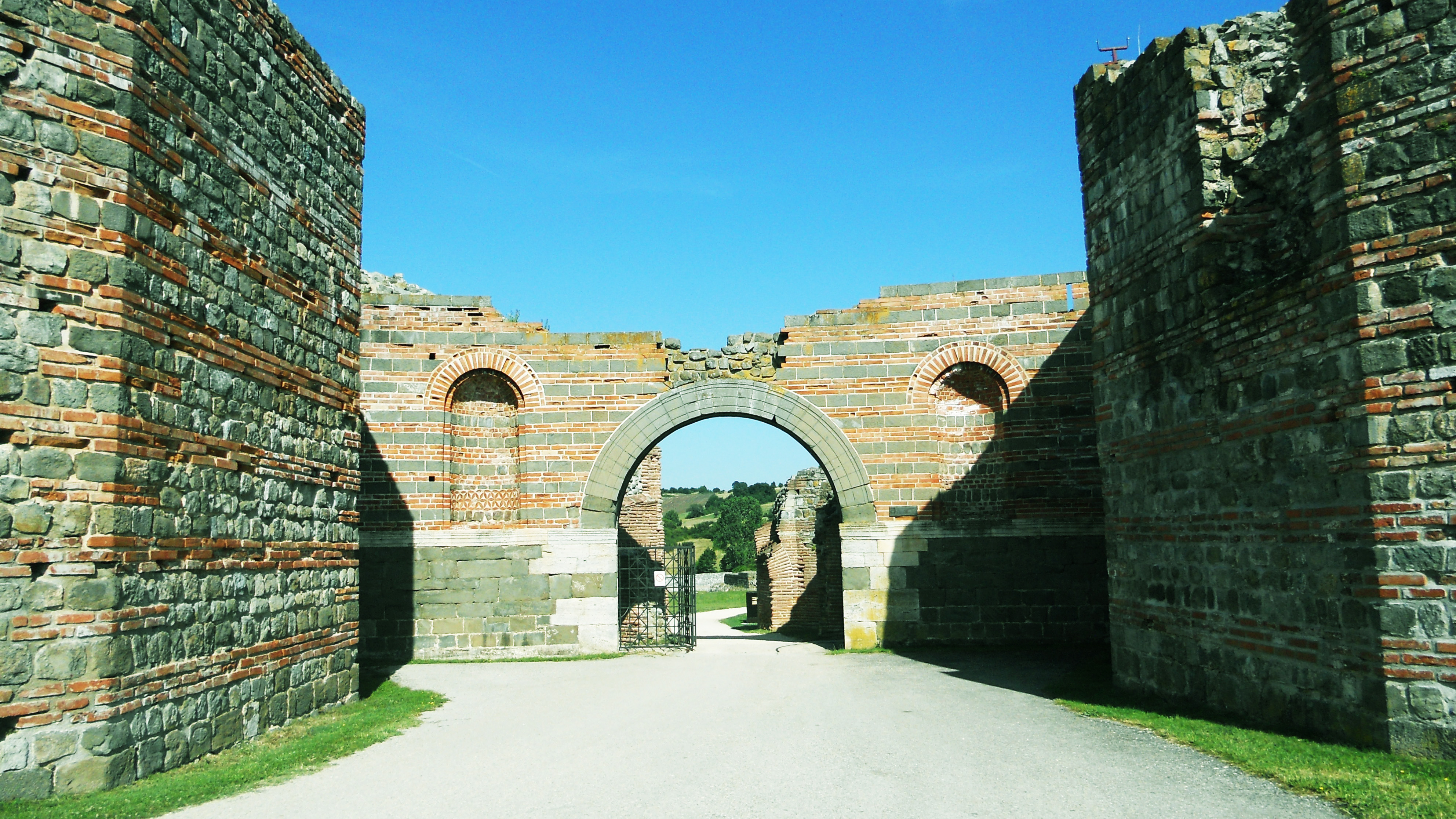 Gamzigrad is an archaeological site and UNESCO World Heritage Site of Serbia, located south of the Danube river, near the city of Zaječar. It is the location of the ancient Roman complex of palaces and temples Felix Romuliana, built by Emperor Galerius.